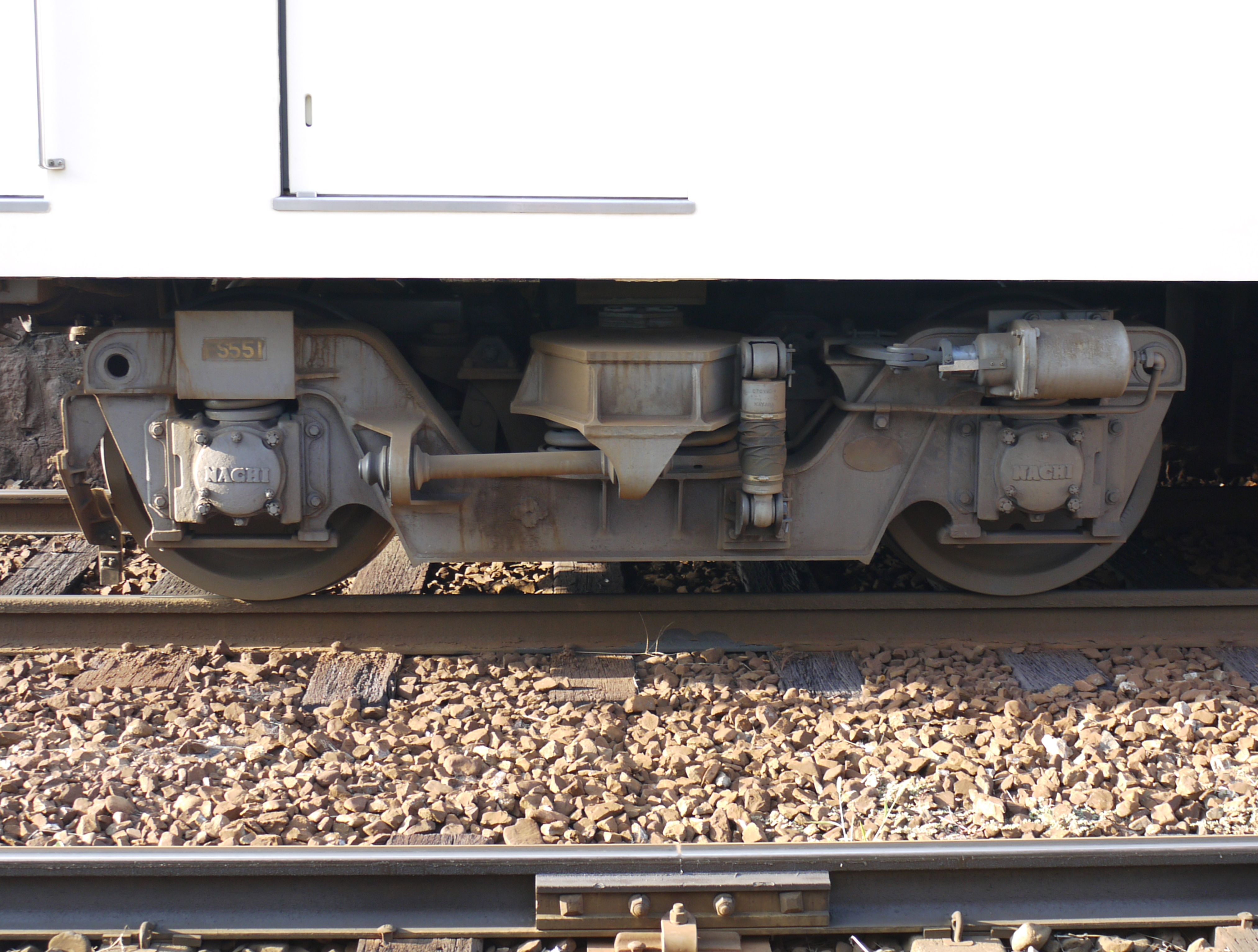 FS551 bogie truck Eiden 712